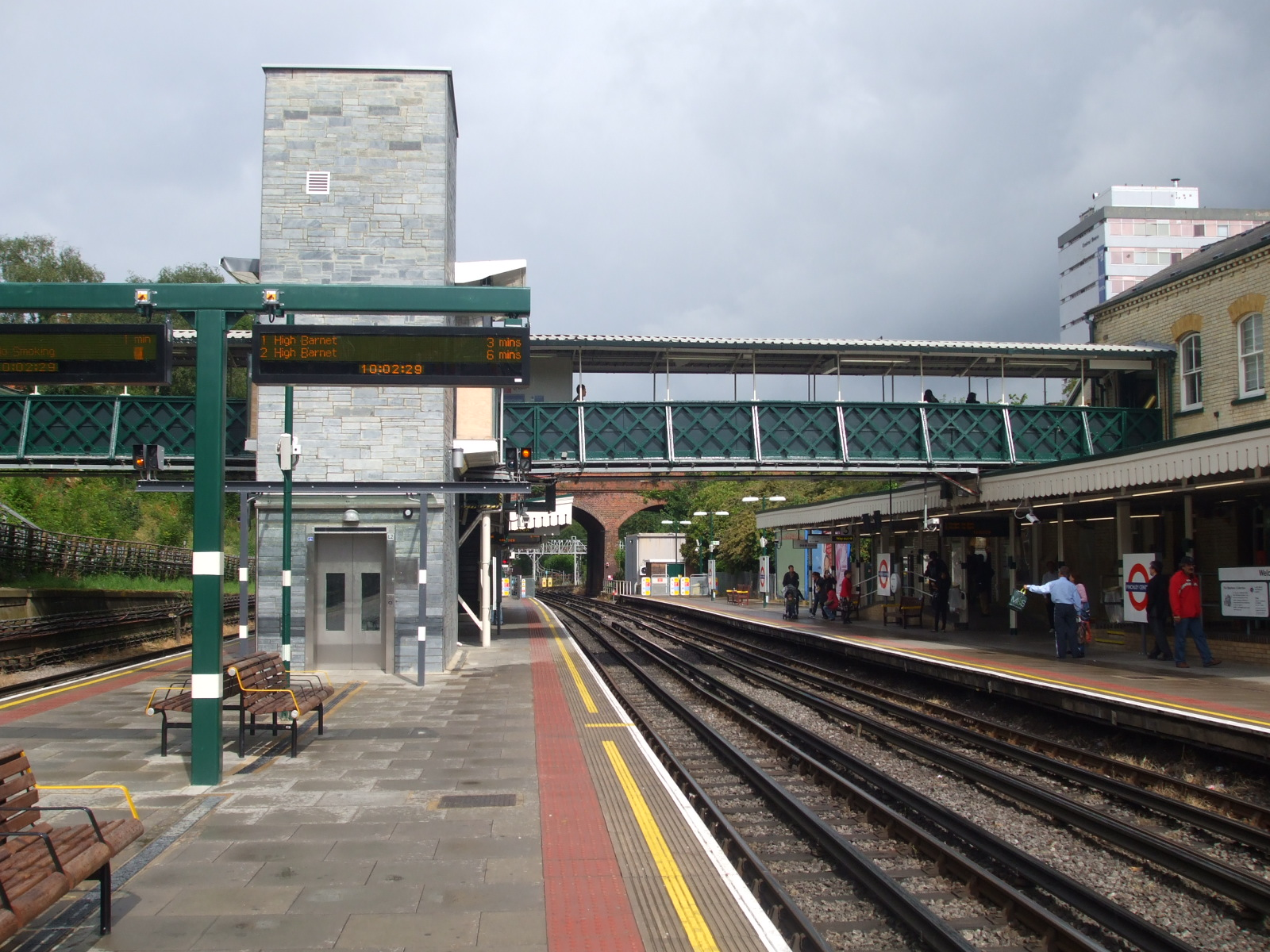 Finchley Central tube station looking north, with new (2008) lift shaft on the northbound platforms.